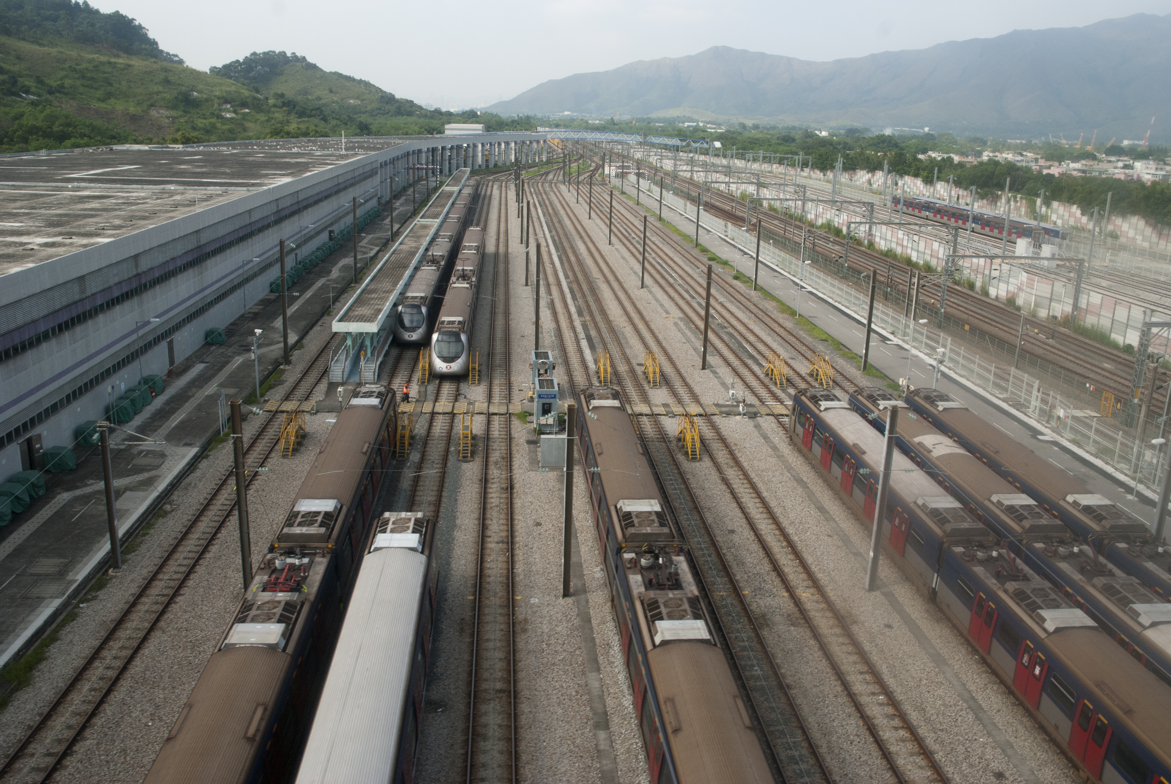 MTR Pat Heung Depot Bird's-eye view